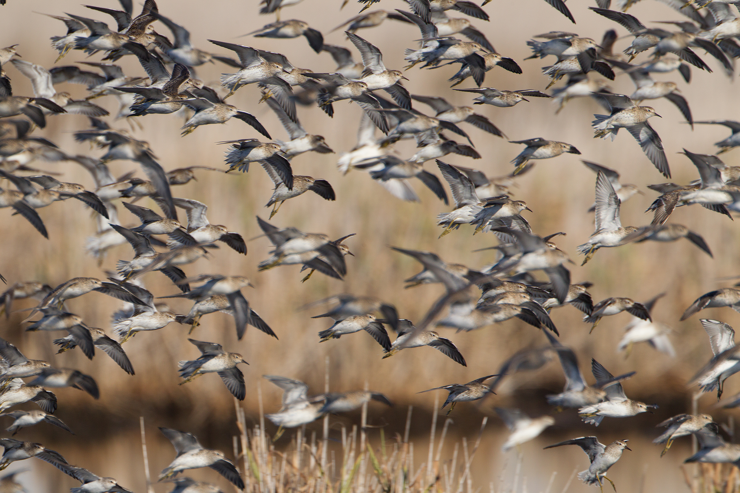 Sharp-tailed Sandpiper (Calidris acuminata) flushing in response to a Swamp Harrier (Circus approximans), Hexham Swamp, Newcastle, New South Wales, Australia